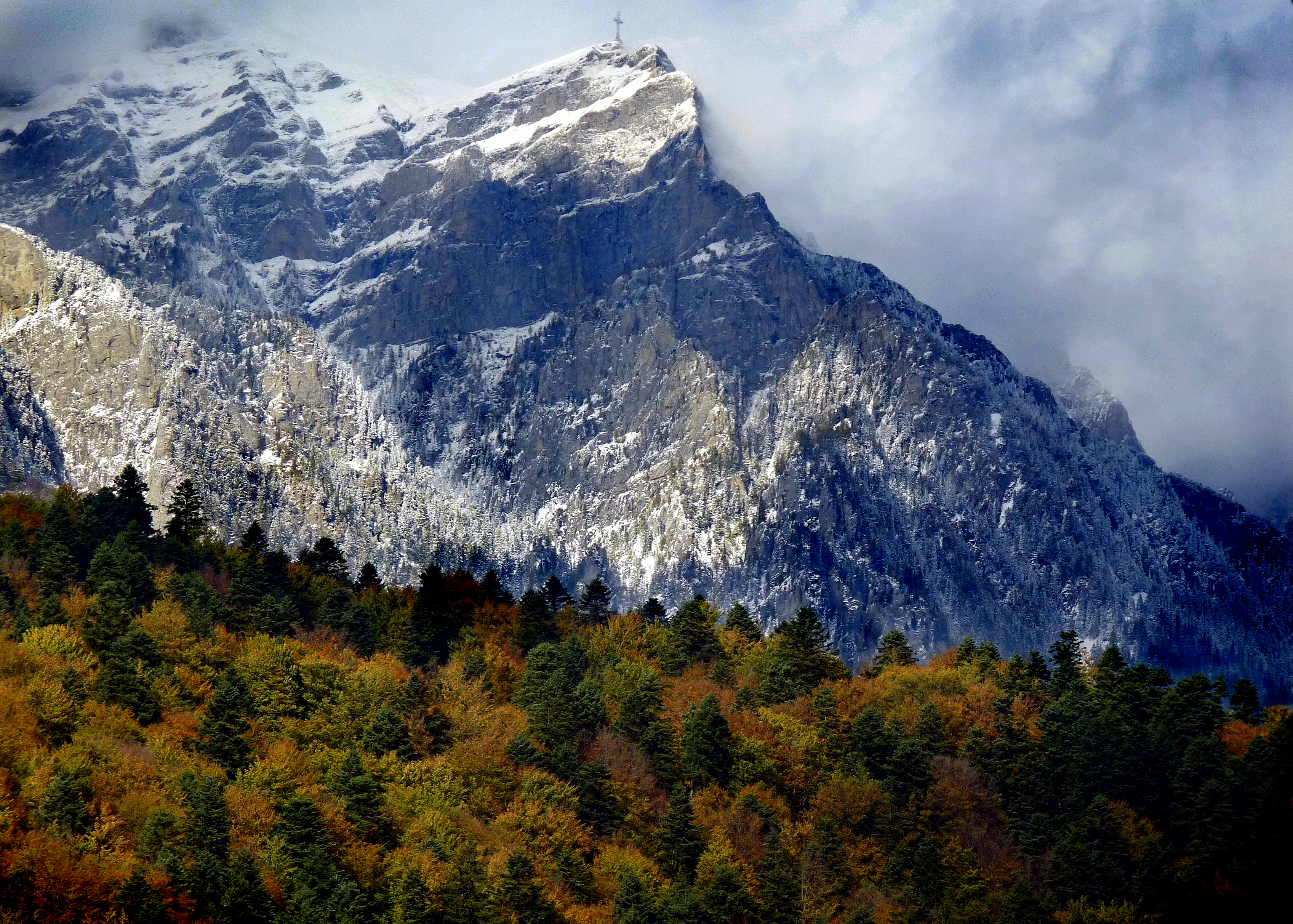 This is one of my favorite memories of Romania. Riding the train from Bucharest to Brasov, a familiar ride for me, my ever faithful friend the Caraiman Cross sitting high on it's mountain, but this trip in October was the most beautiful, with the dramatic contrast of the early snow and the fall foliage, it was something to be remembered. I can't believe I was able to capture it as we zoomed past on the train!